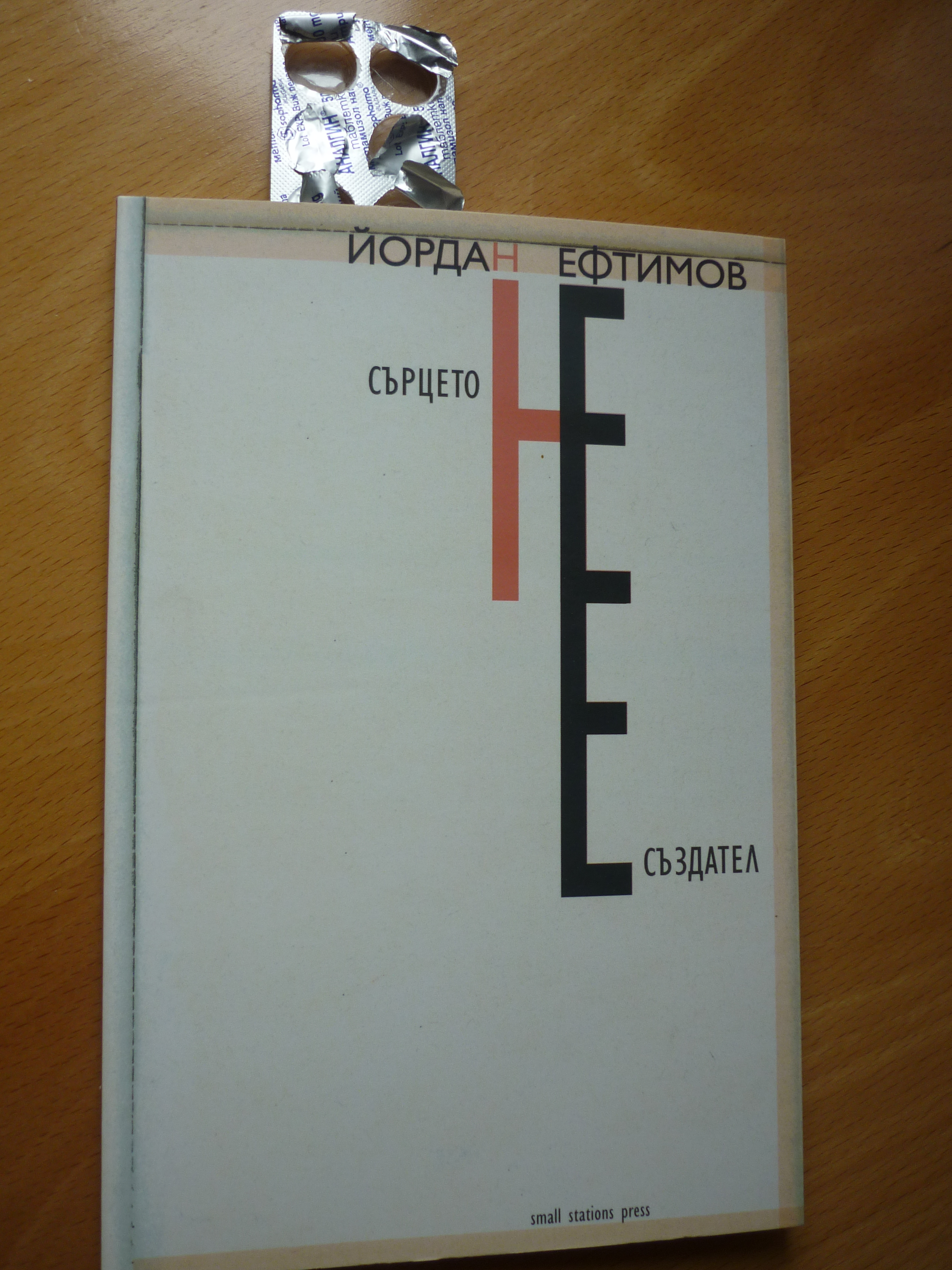 „The Heart Is Not a Creator“, cover of the first Bulgarian edition, 2013